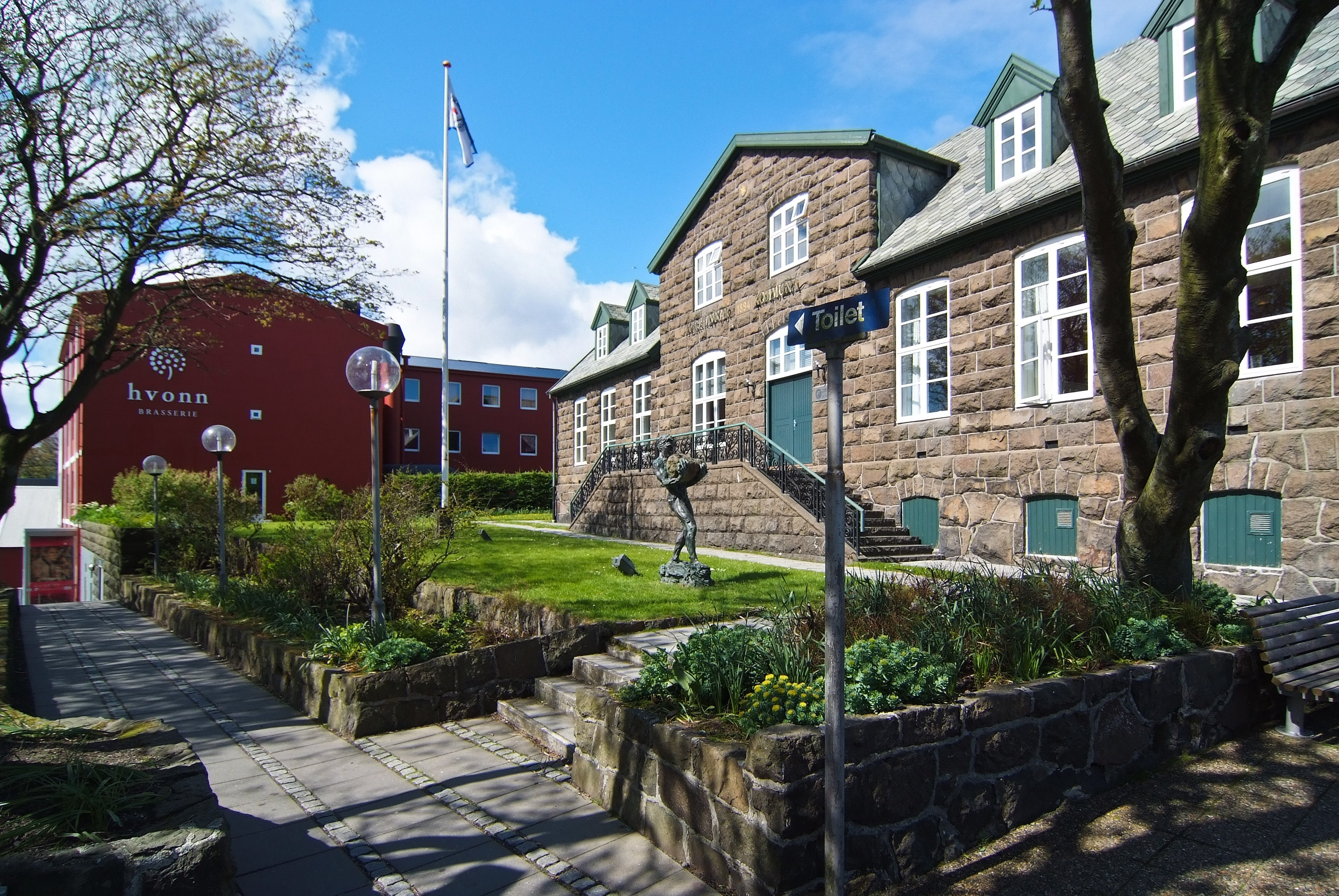 Tórshavn town hall